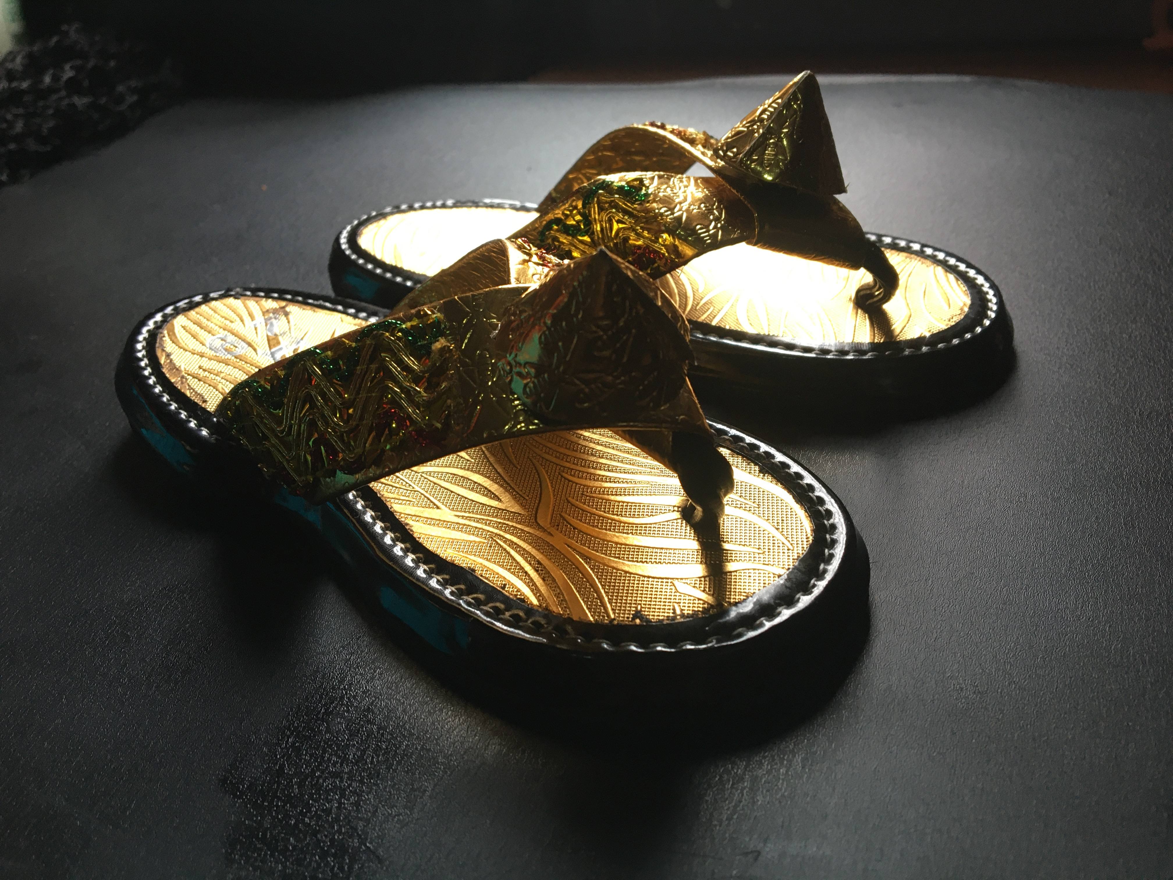 This beautiful Ahenema made from Ghana. The sole made with leather unlike the normal Ghanaian Ahenema Sandal made with nail, this type of Ahenema come with only leather sole holding the caps together and can be worn on any attire for any occasion